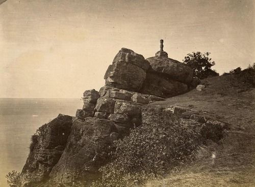 The Swami Rock before the Koneswaram temple was rebuilt on 1950